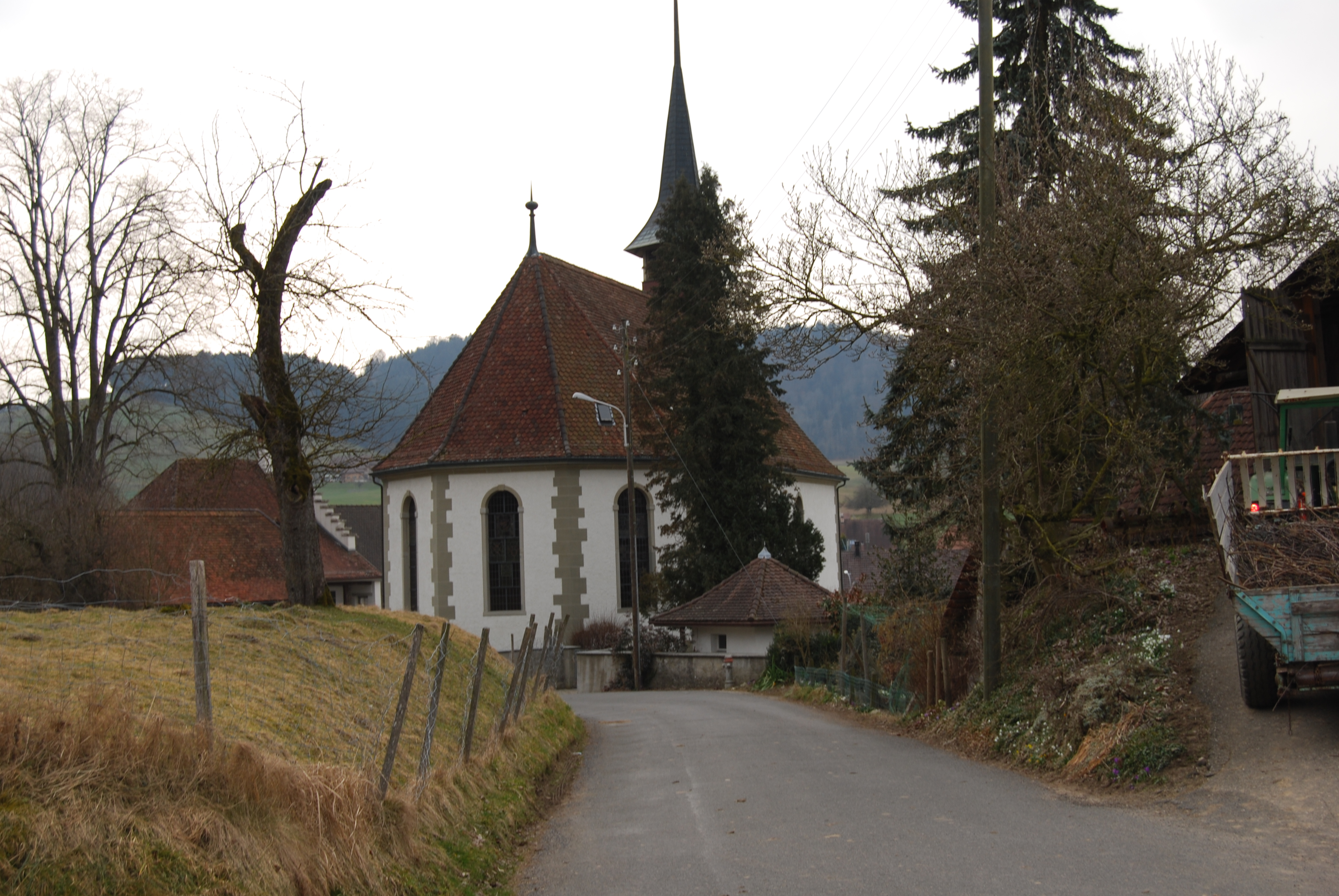 Protestant church of Melchnau, canton of Bern, Switzerland